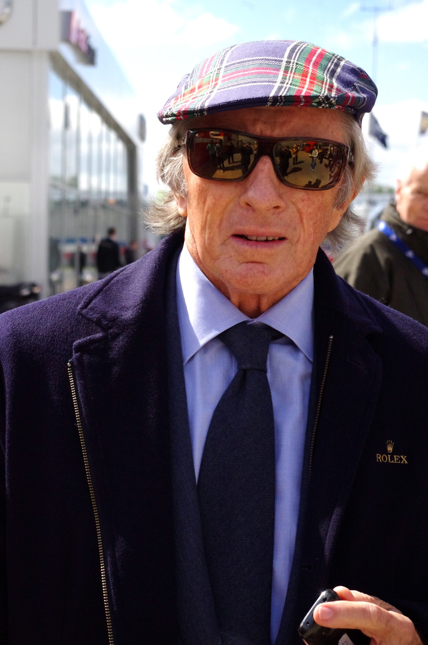 Three Times Formula 1 World Champion and Tireless Campaigner motor racing safety 6 Hours of Silverstone (WEC) 2014